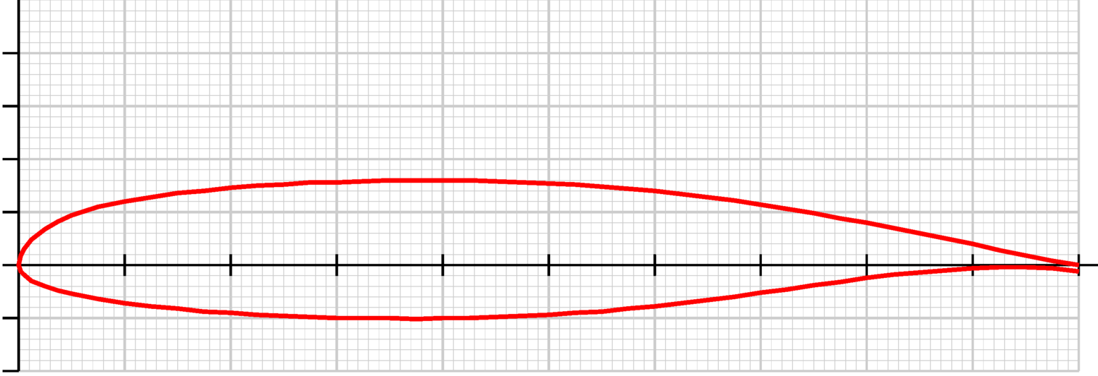 Airfoil NASA/LANGLEY MS(1)-0313